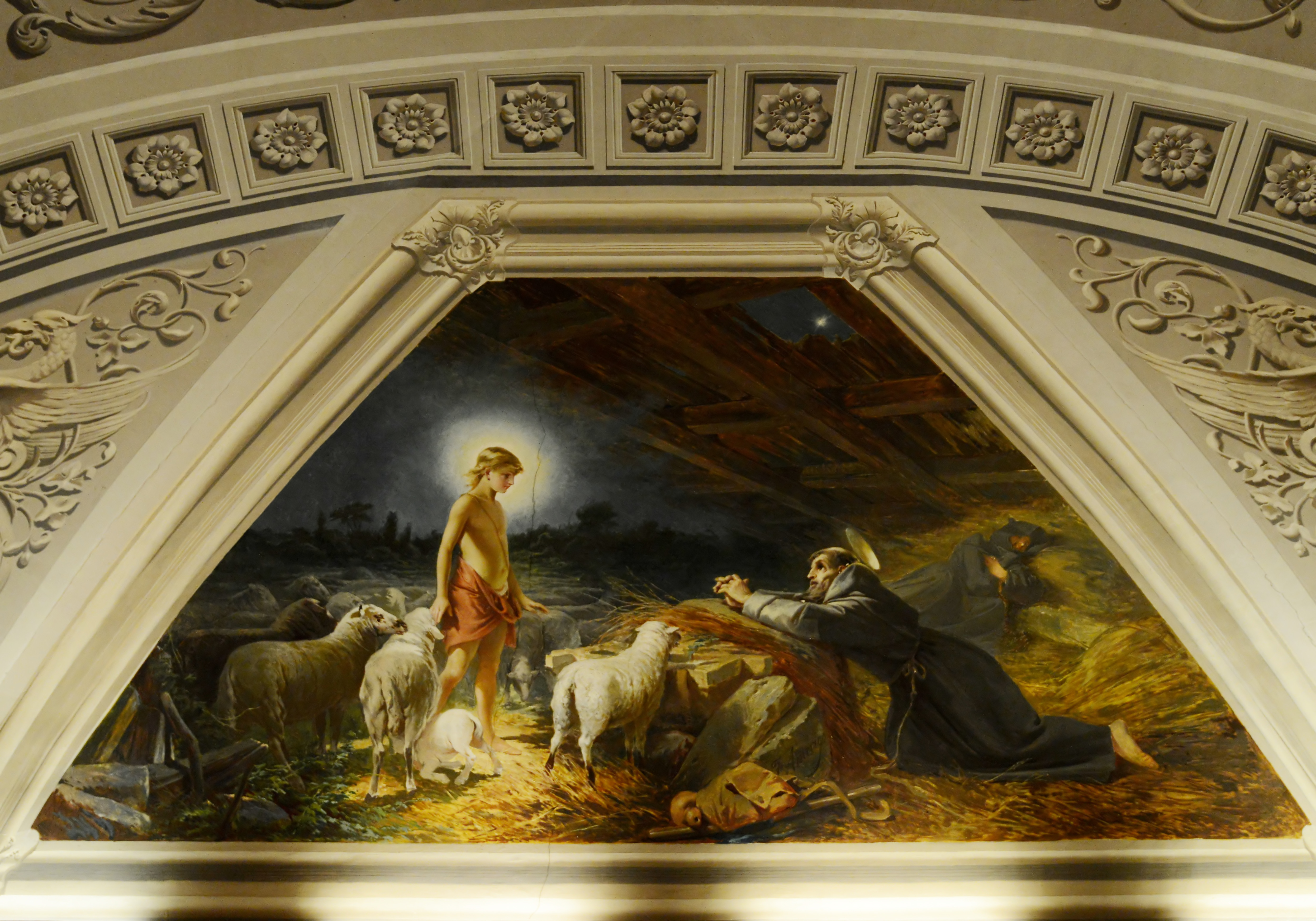 Madrid, Basilica de San Francisco el Grande. Ceiling of the sacristy by José Marcelo Contreras.